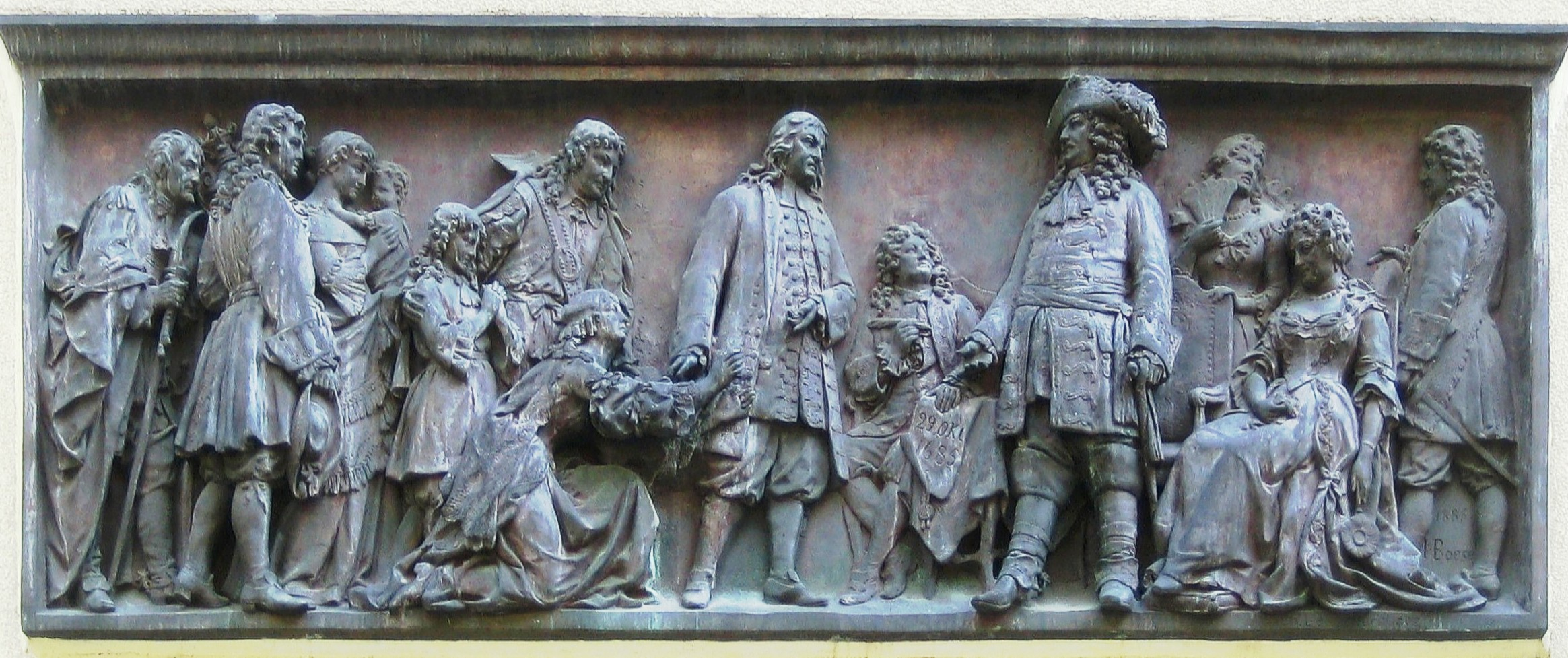 Relief, describing the arrival of Huguenots in Prussia 1685.